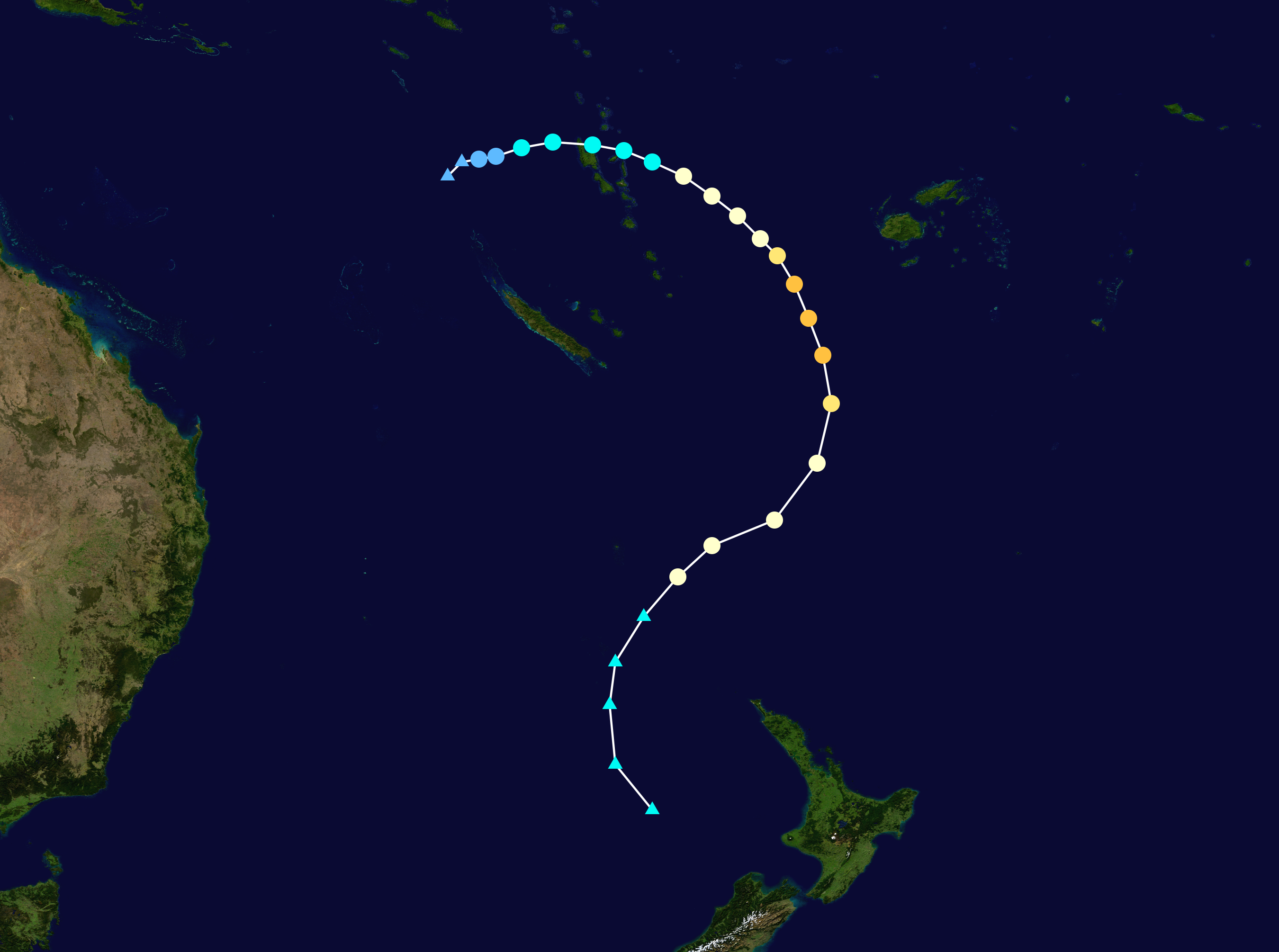 Track map of Severe Tropical Cyclone Funa of the 2007-08 South Pacific cyclone season. The points show the location of the storm at 6-hour intervals. The colour represents the storm's maximum sustained wind speeds as classified in the Saffir–Simpson scale (see below), and the shape of the data points represent the nature of the storm, according to the legend below. Saffir–Simpson scale Tropical depression≤38 mph≤62 km/h Category 3111–129 mph178–208 km/h Tropical storm39–73 mph63–118 km/h Category 4130–156 mph209–251 km/h Category 174–95 mph119–153 km/h Category 5≥157 mph≥252 km/h Category 296–110 mph154–177 km/h Unknown Storm type Tropical cyclone Subtropical cyclone Extratropical cyclone / Remnant low / Tropical disturbance / Monsoon depression